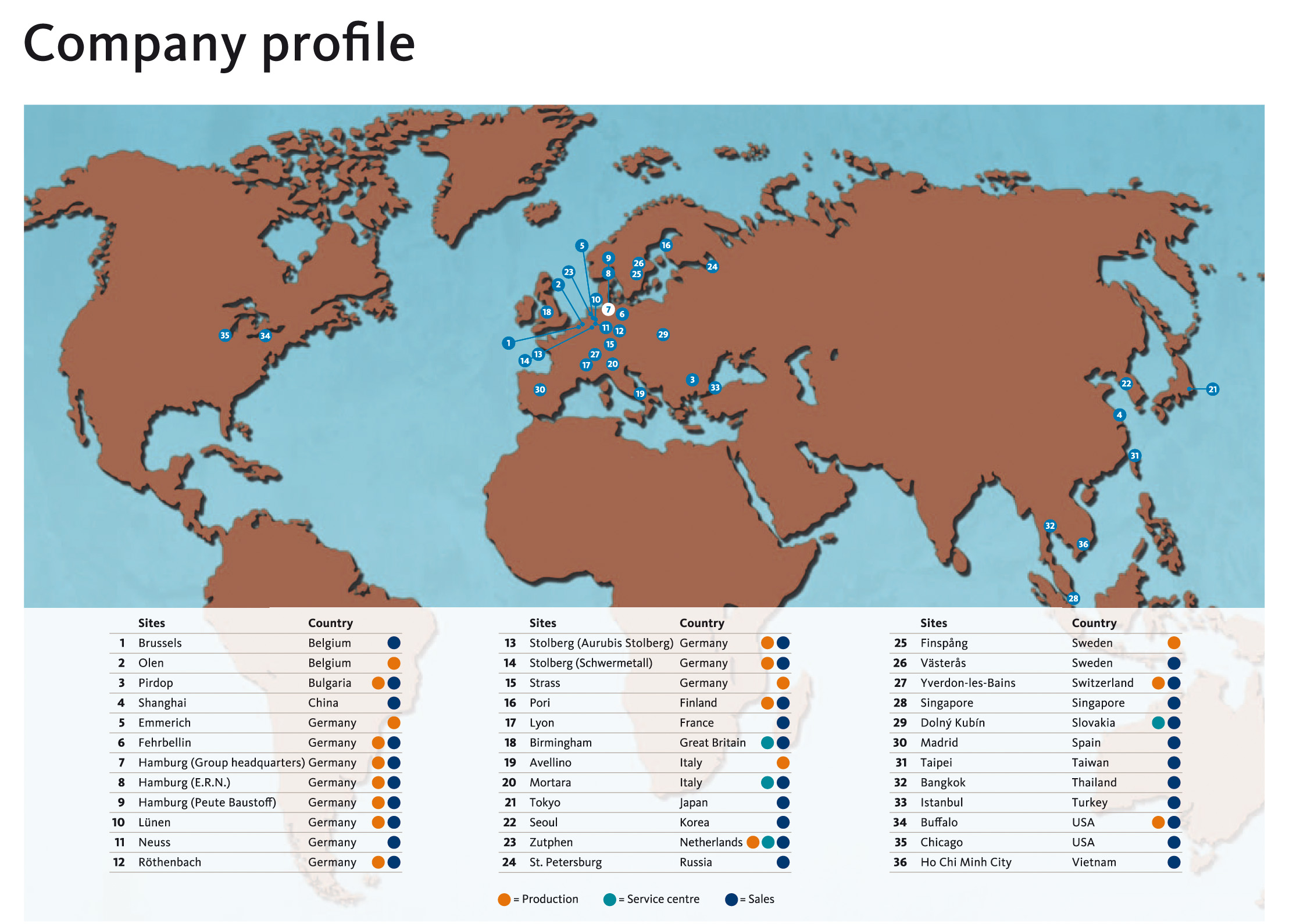 The Aurubis sites and their business activities.